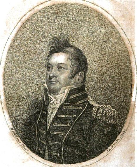 Isaac Hull. Portrait from: Polyanthos (Boston, Mass.: J.T. Buckingham)